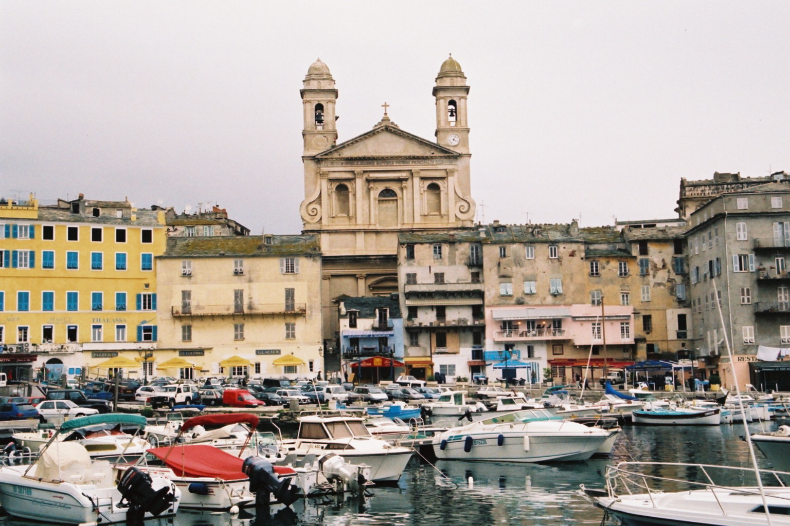 Church St Jean Baptiste in Bastia, Corsica